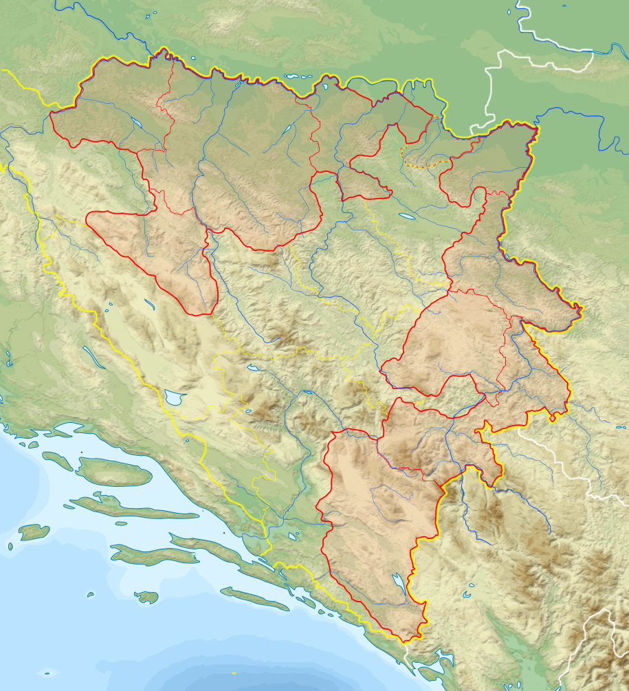 Map of Republika Srpska (red) in Bosnia (yellow), derivative work of this topographic one: File:Dinaric_Alps_map-fr.svg licensed with Cc-by-sa-3.0,2.5,2.0,1.0, GFDL